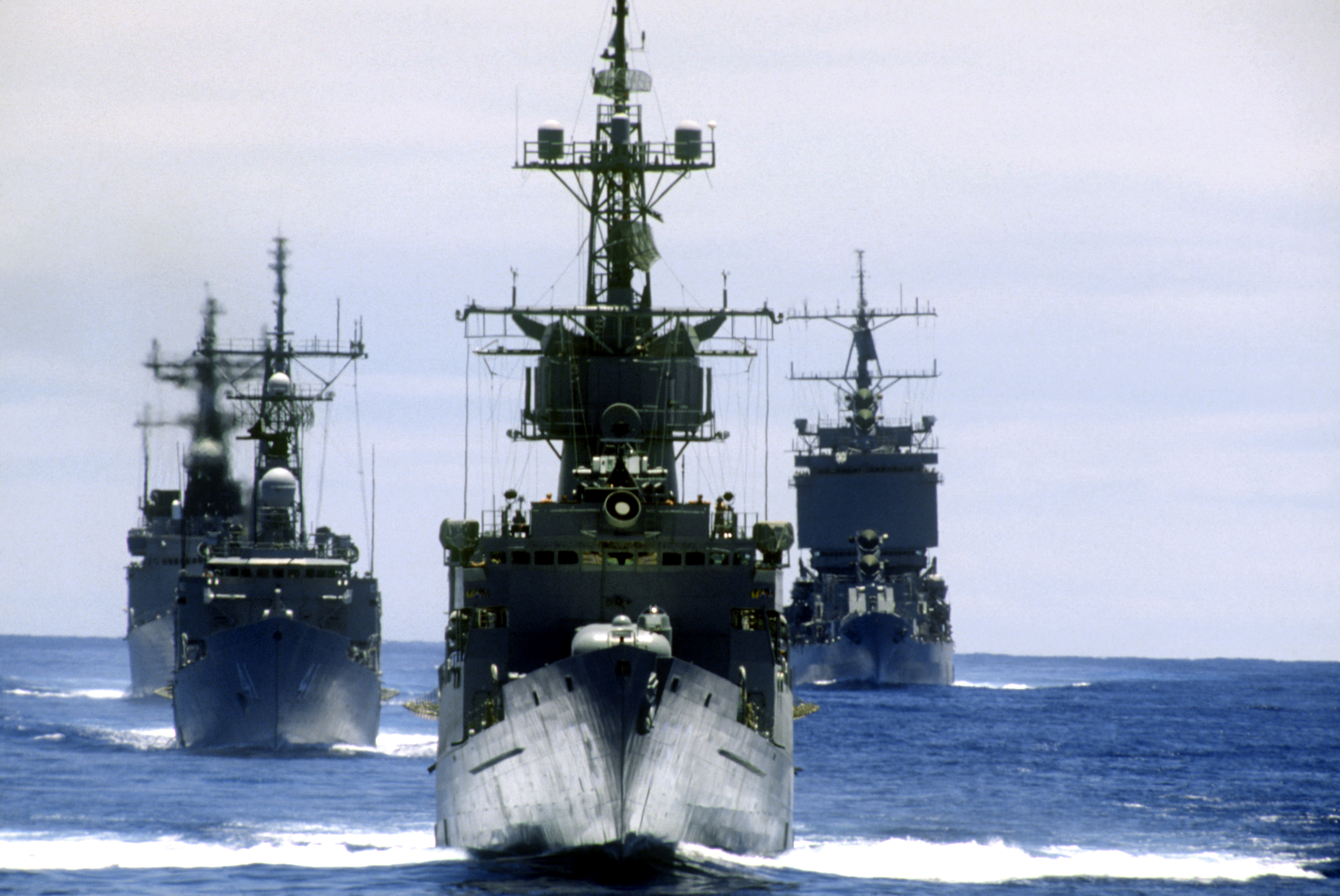 A bow view of the ships composing the battleship USS MISSOURI (BB-63) battle group participating in the multinational Exercise RIMPAC '88. They are, front to back: the frigate USS COOK (FF-1083), the guided missile frigate USS MCCLUSKY (FFG-41), the destroyer USS JOHN YOUNG (DD-973) and the nuclear-powered guided missile cruiser USS LONG BEACH (CGN-9).